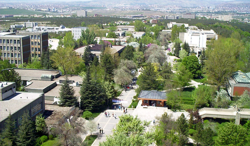 Part of Middle East Technical University campus, as viewed from the MM Building (Turkish: Mühendislik Merkez Binası). Photograph taken by Atilim Gunes Baydin, May 7, 2003.